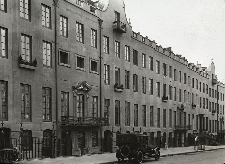 Turtle Bay, Manhattan